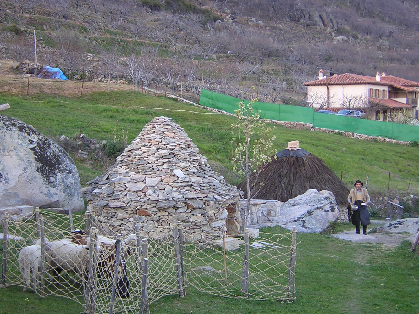 Chozo or more commonly choza means hut.